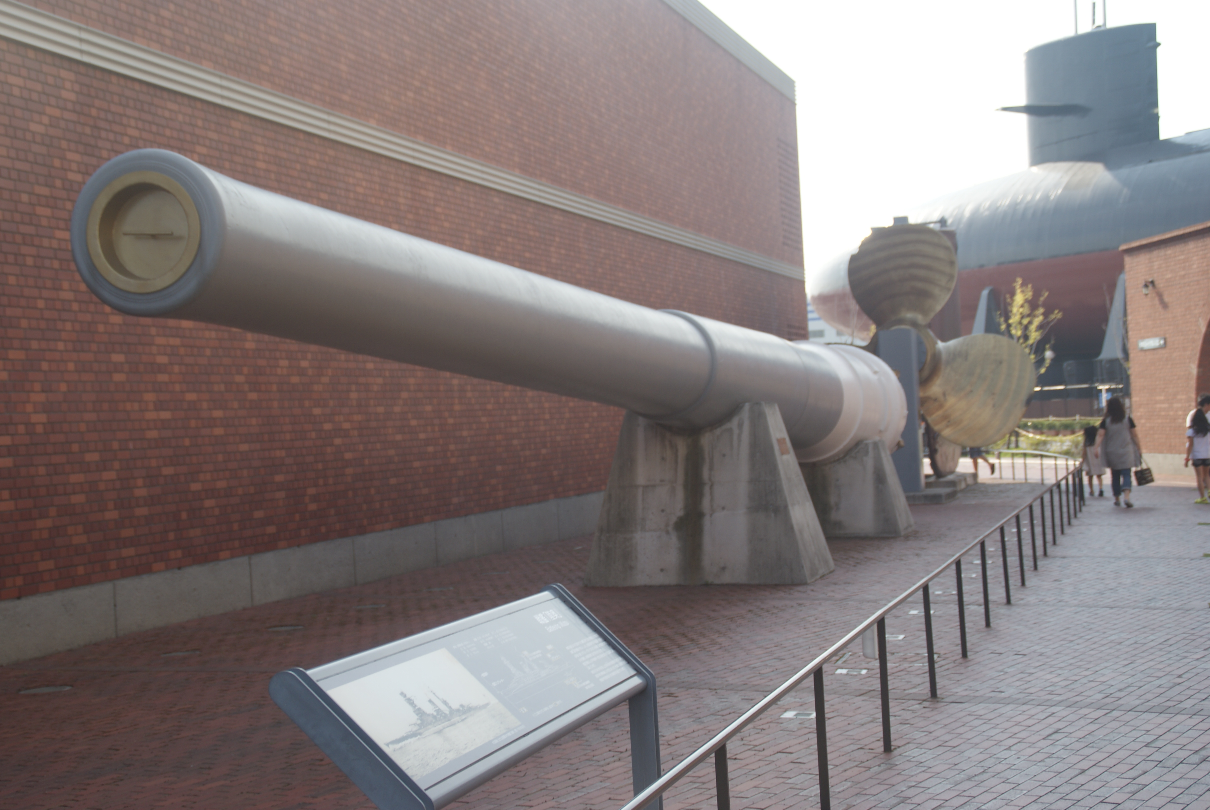 16 inch gun from battleship Matsu